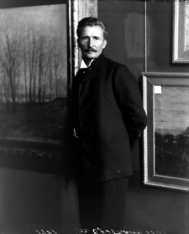 Swedish artist Per Ekström (1844–1935)